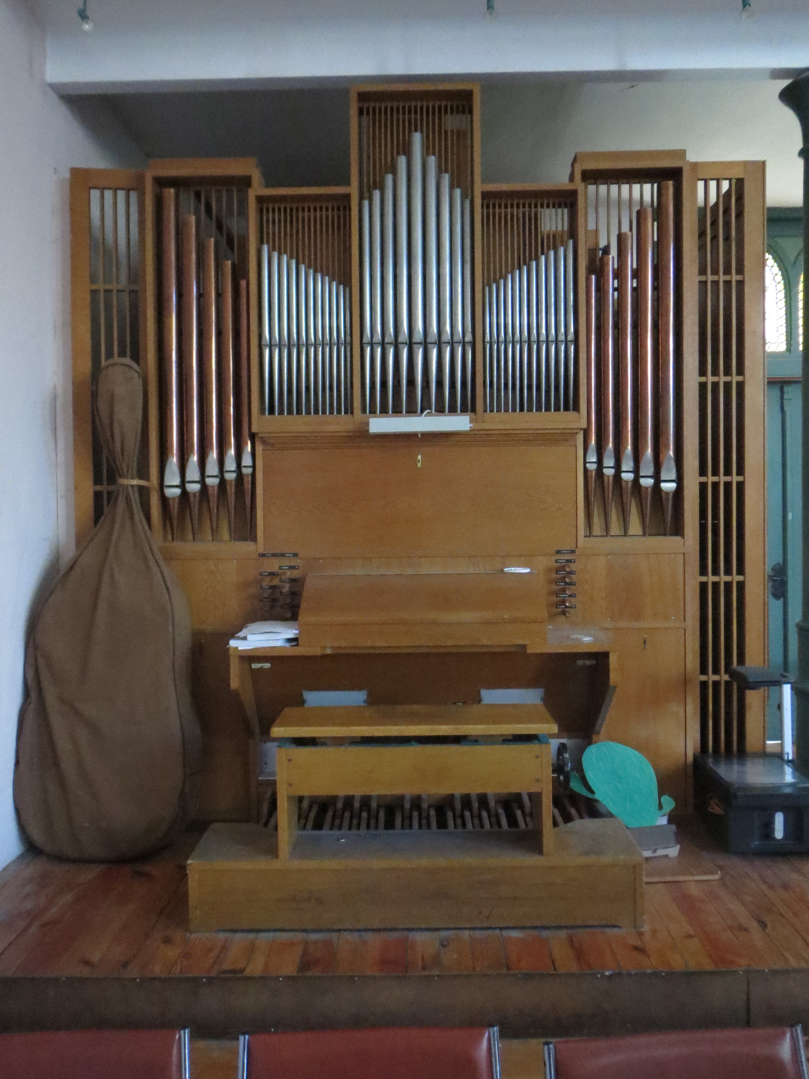 Lutherhof interior: pipe organ